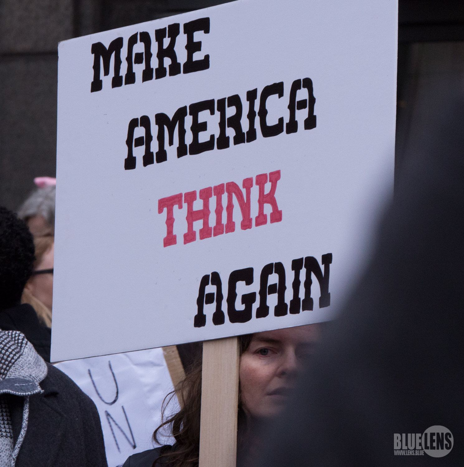 Trump-WomensMarch_2017-1060583